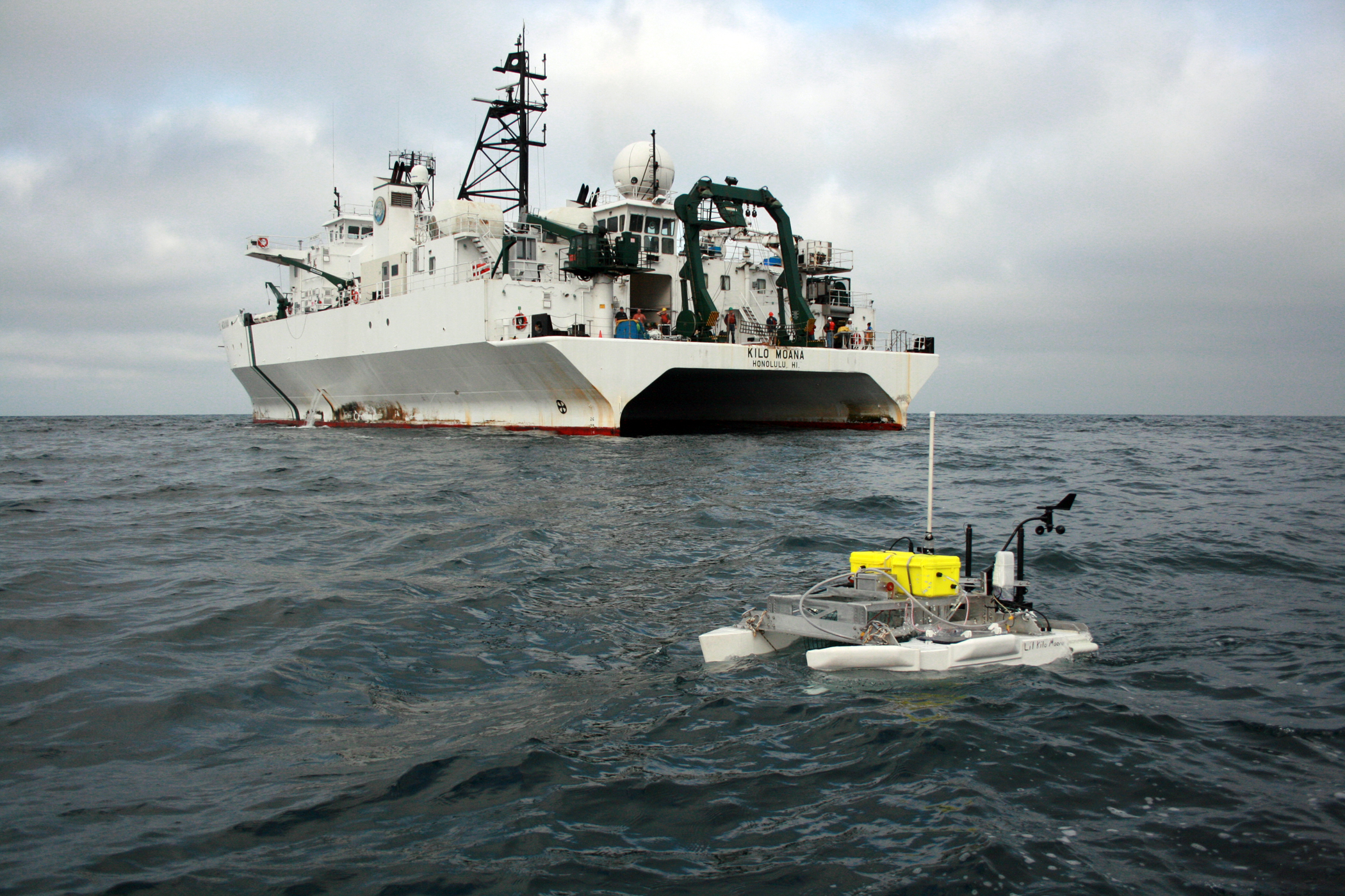 HONOLULU (Aug. 14, 2009) The Office of Naval Research small waterplane area twin-hull oceanographic research ship R/V Kilo Moana takes part in the second Radiance in a Dynamic Ocean (RaDyO) program, an at-sea research experiment in Honolulu. Twenty-five researchers from the US, Canada, Poland and Australia participated in the RaDyO experiment. Results from this project are expected to enhance our knowledge of imaging through the air-sea interface and through-the-surface optical communications. (U.S. Navy photo/Released)